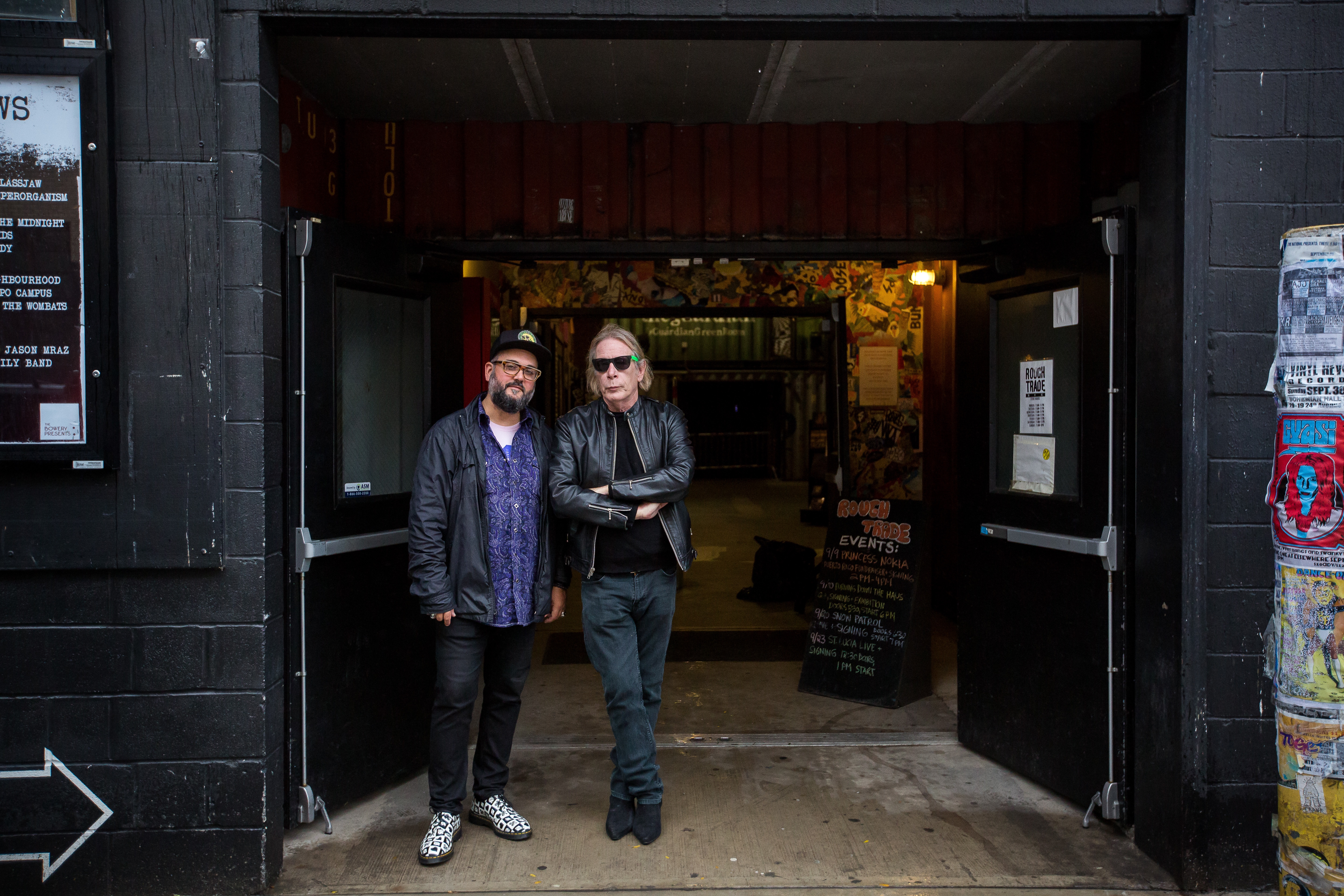 BROOKLYN, NY -- SEPTEMBER 2018: Tim Mohr, left, stands with journalist Legs McNeil, at a book release party for Mohr's book Burning Down the Haus: Punk Rock, Revolution, and the Fall of the Berlin Wall at Rough Trade on September 10, 2018 in Brooklyn.